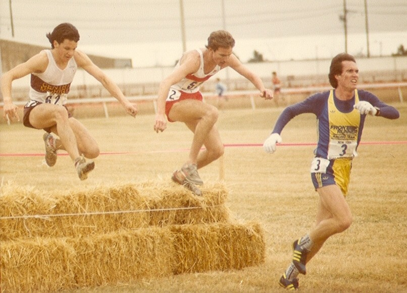 Ed Eystone and Craig Virgin at US XCountry Trials, 1983 in New York